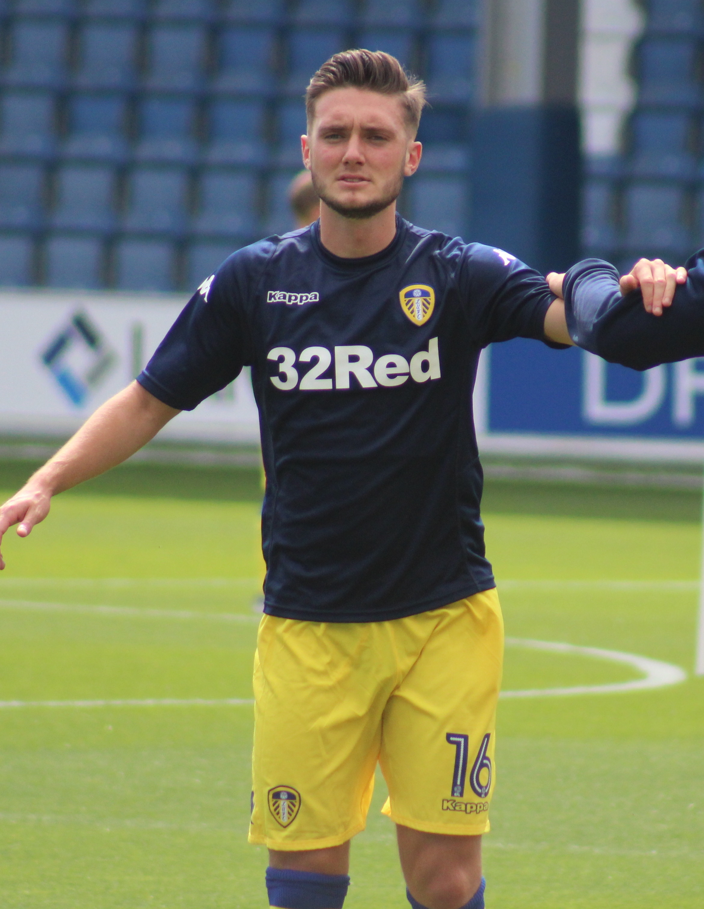 Grimes warming up for Leeds United in 2016